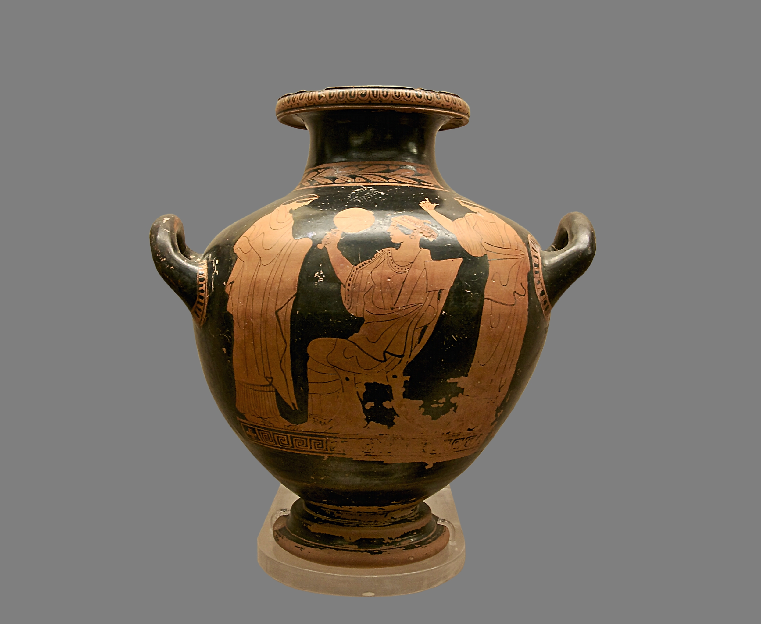 Seated woman holding a miror and talking with two women.